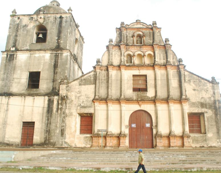 Church in Subtiaba, a part of León, Nicaragua.